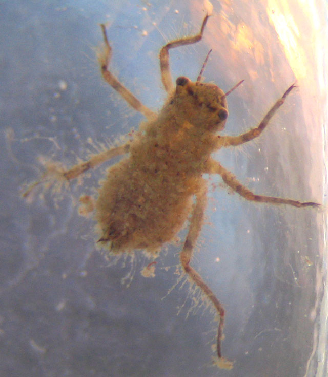 Larvae of Dragonflies. About 8 mm long. Location: 10 week old garden pond in Munich, Germany.According to this discussion the genus is Libellula, the species is, most likely, Libellula depressa or, less likely, Libellula quadrimaculata.